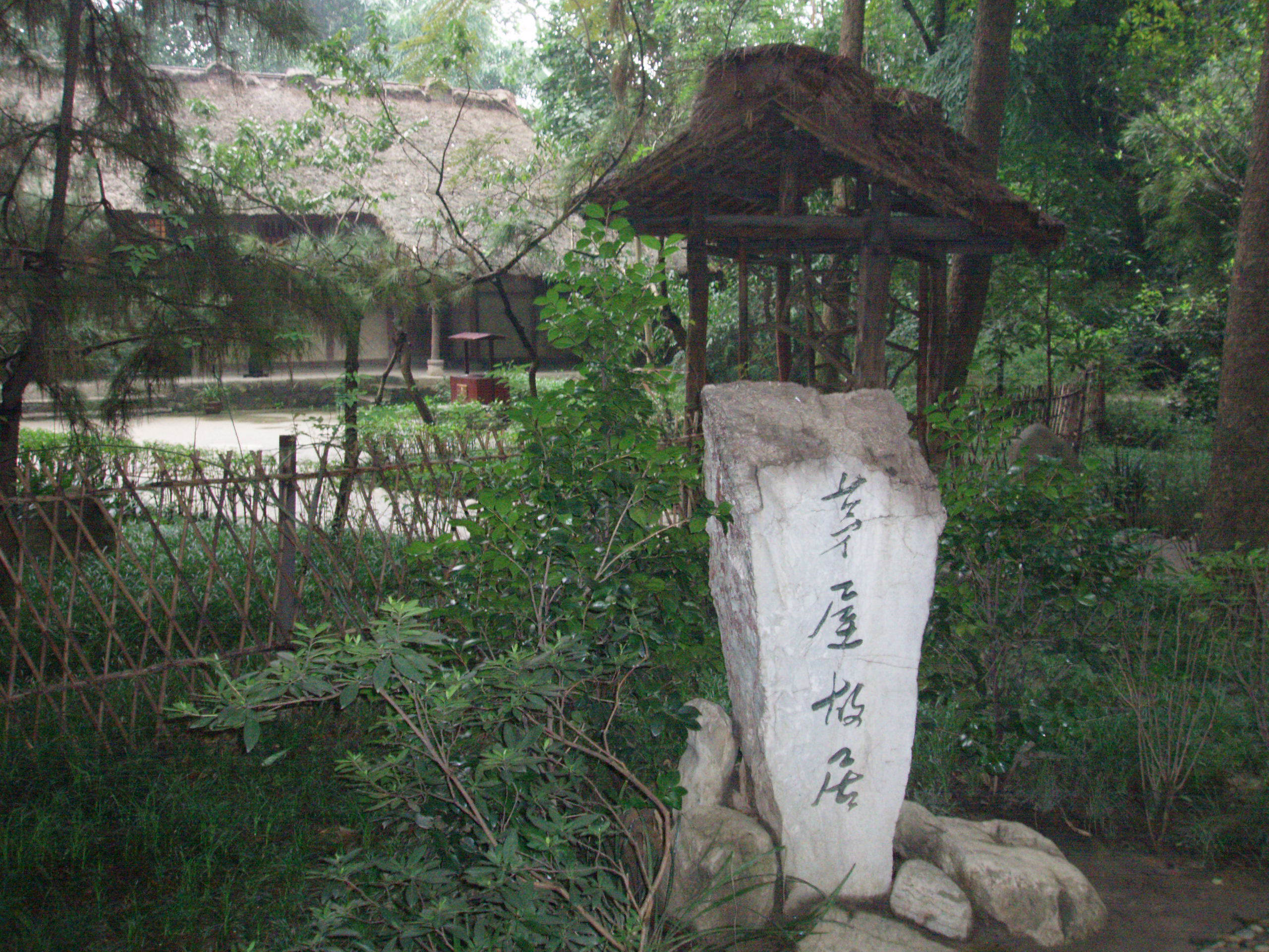 The Thatched Cottage of Du Fu in Chengdu,China